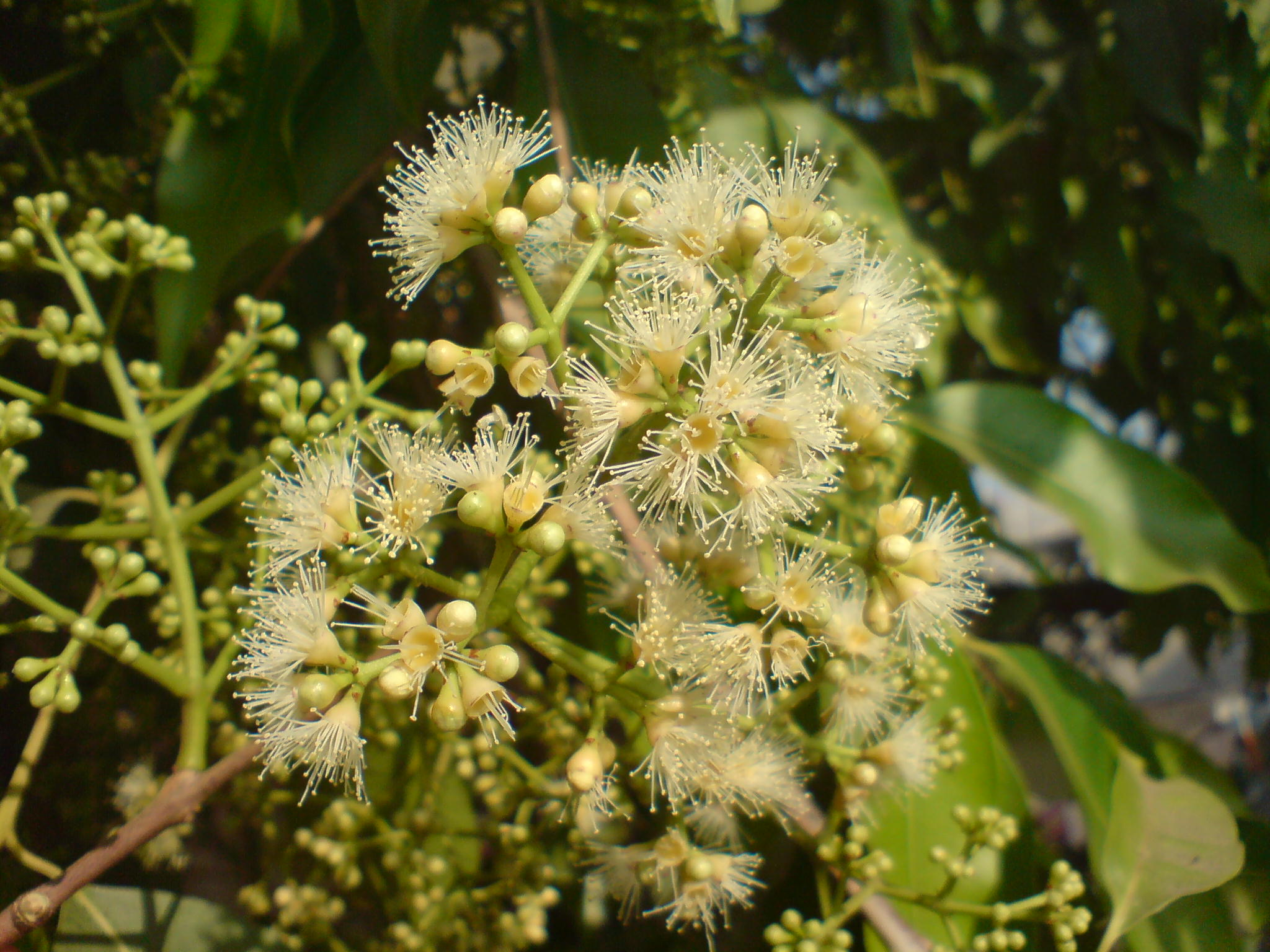 Syzygium cumini Flower